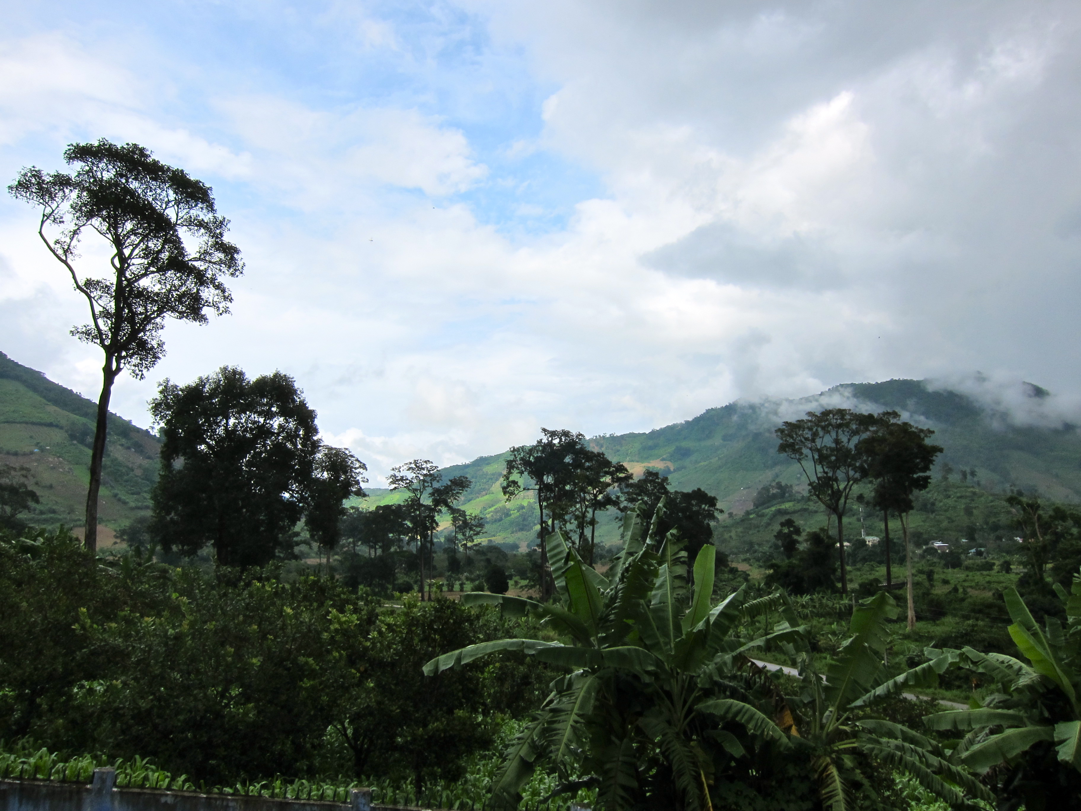 View of Phuoc Binh National Park from the National Parks office